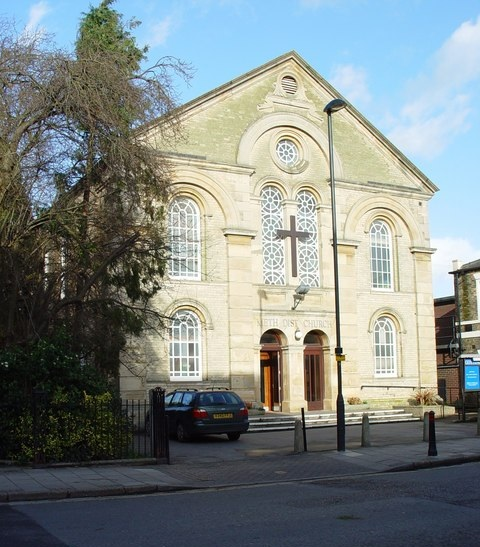 Cottingham Methodist Church, Cottingham, East Riding of Yorkshire, England.Located on Hallgate, this building seemed hard to frame.